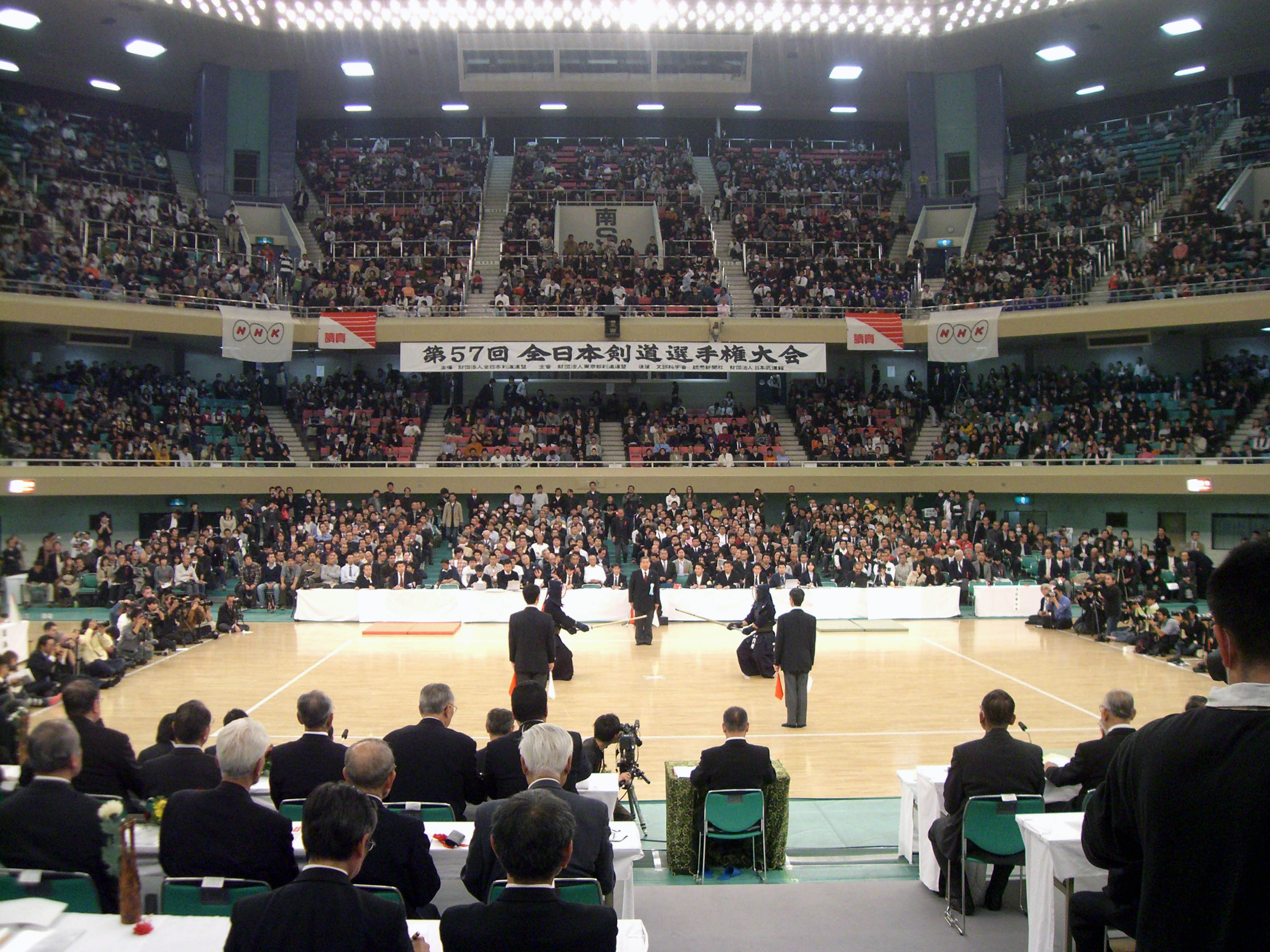 Picture of the 57th All Japan Kendo Championship, nov 3rd, 2009